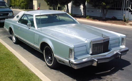 Lincoln Continental Mark V. Photo by Morven: my neighbor's car. Taken on April 20, 2003.